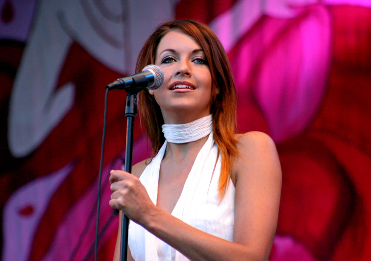 Dea Norberg @ Gatufesten in Sundsvall, Sweden.